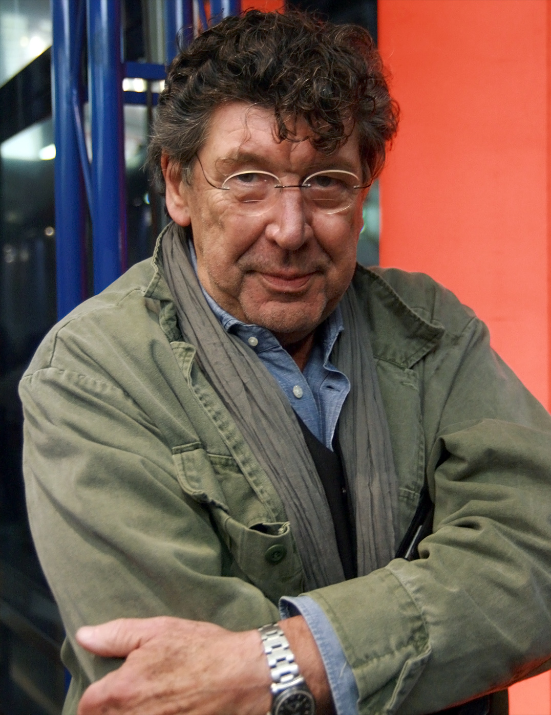 Peter Patzak, guest at the Austrian premiere of Die Wand (The Wall) at Gartenbaukino in Vienna, Austria.